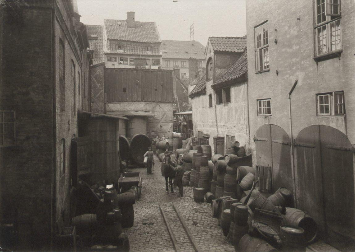 C. Langes Eddikebryggeri, at Overgaden Neden Vandet 30 in Copenhagen, Denmark. The company was founded in 1853 and from 1902 known as De Danske Eddikebryggerier.